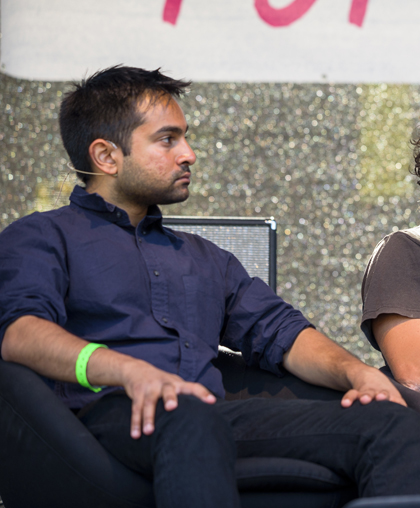 A debate during the Popvenstre festival in Oslo 27.08.16. From left: Bhaskar Sunkara (editor of Jacobin Magazine, USA), Christos Giovanopoulos (Solidarity4All, Greece) and Pablo Bustinduy (Podemos, Spain).